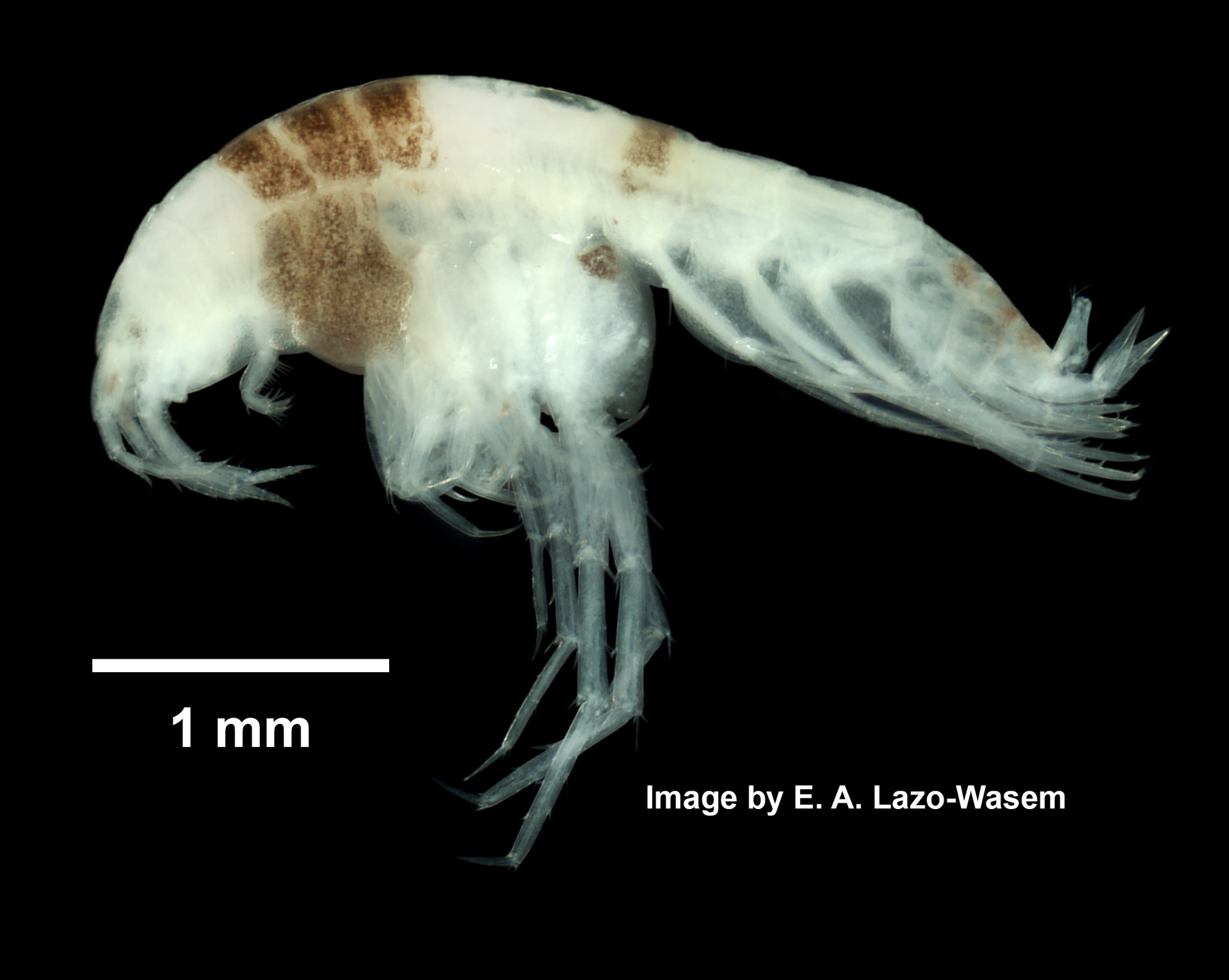 PRESERVED_SPECIMEN; ; 70% alc.; Det. by: Eric A. Lazo-Wasem 2015